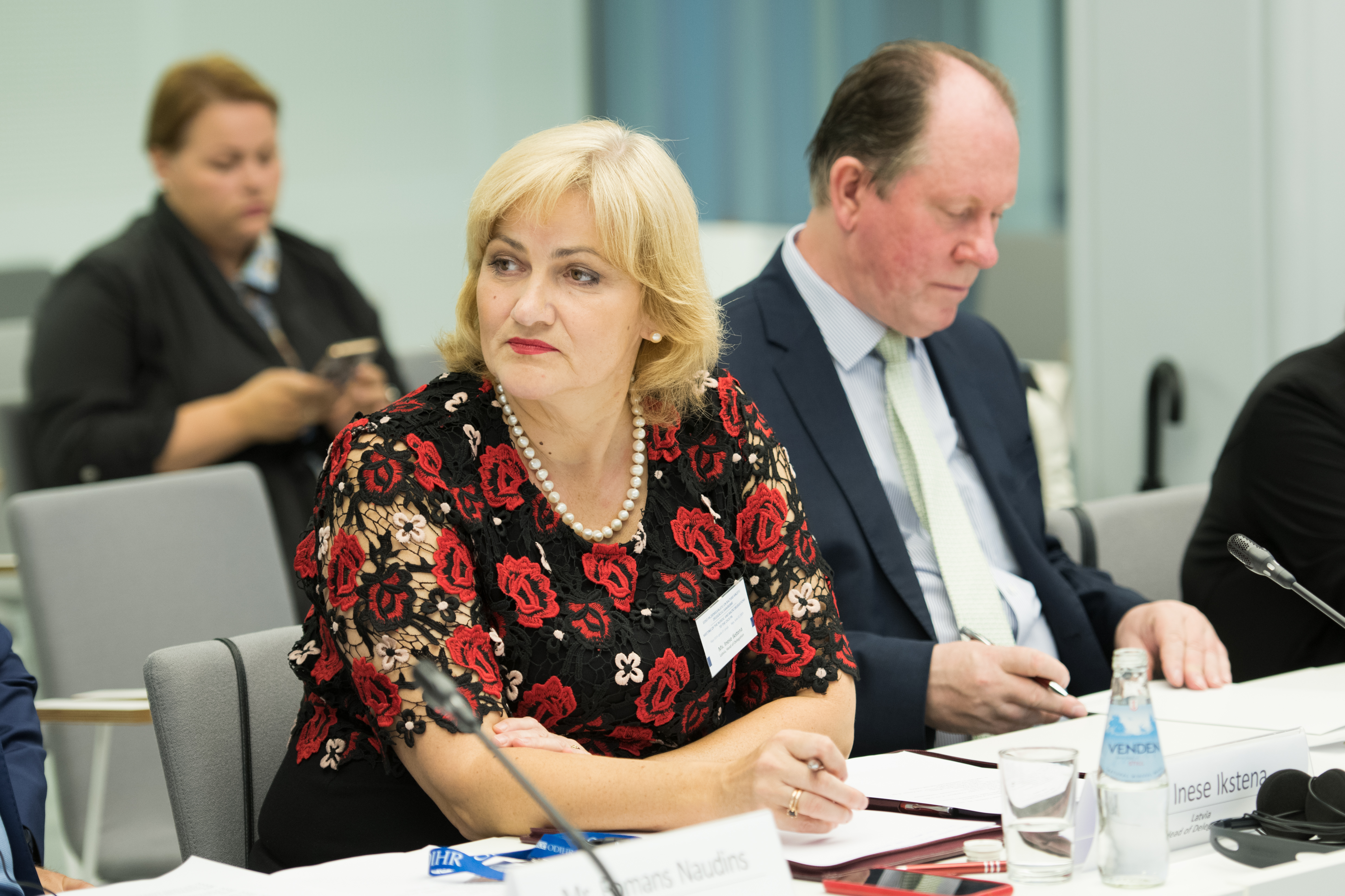 2019.gada 17.jūnijs. EDSO Parlamentārās asamblejas Ziemeļvalstu un Baltijas valstu delegāciju sanāksme. Foto: Ieva Ābele, Saeima Izmantošanas noteikumi: saeima.lv/lv/autortiesibas